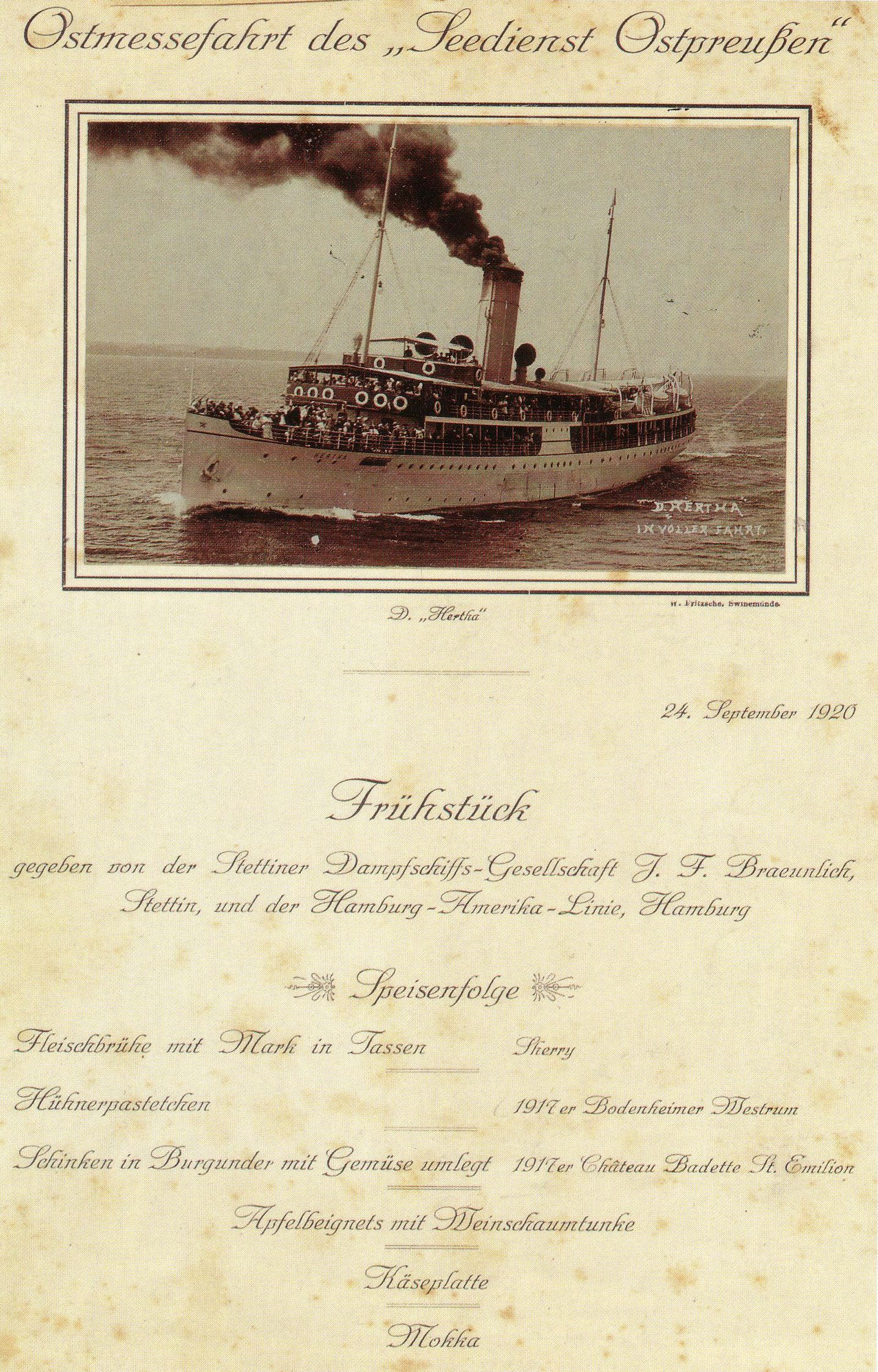 Breakfast menu of a steamer heading Königsberg for the first east trade fair